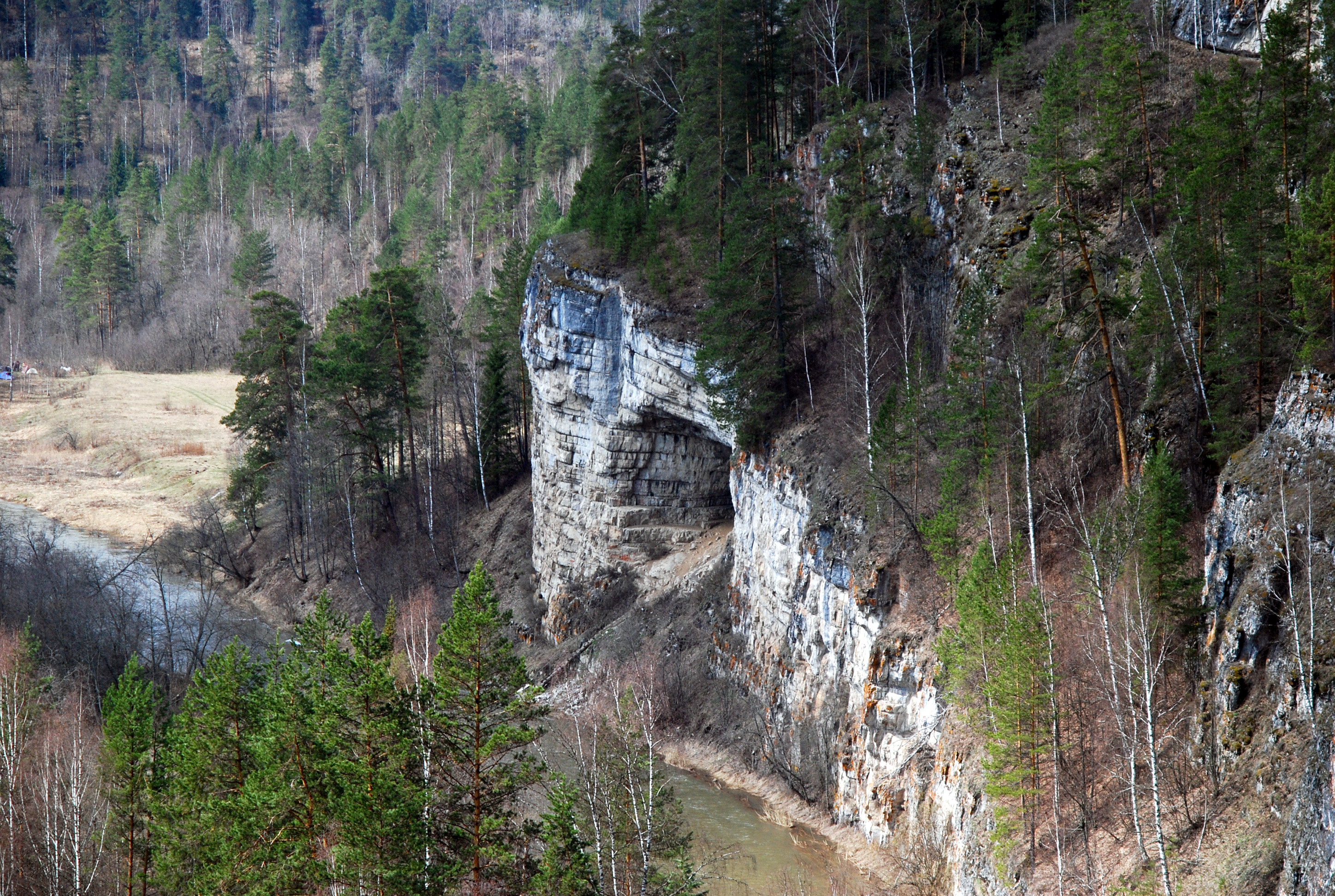 Ignateva cave entry